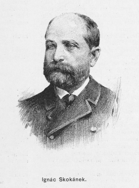 Portrait of Ignác Skokánek (1837-1909), Czech entrepreneur and politician.